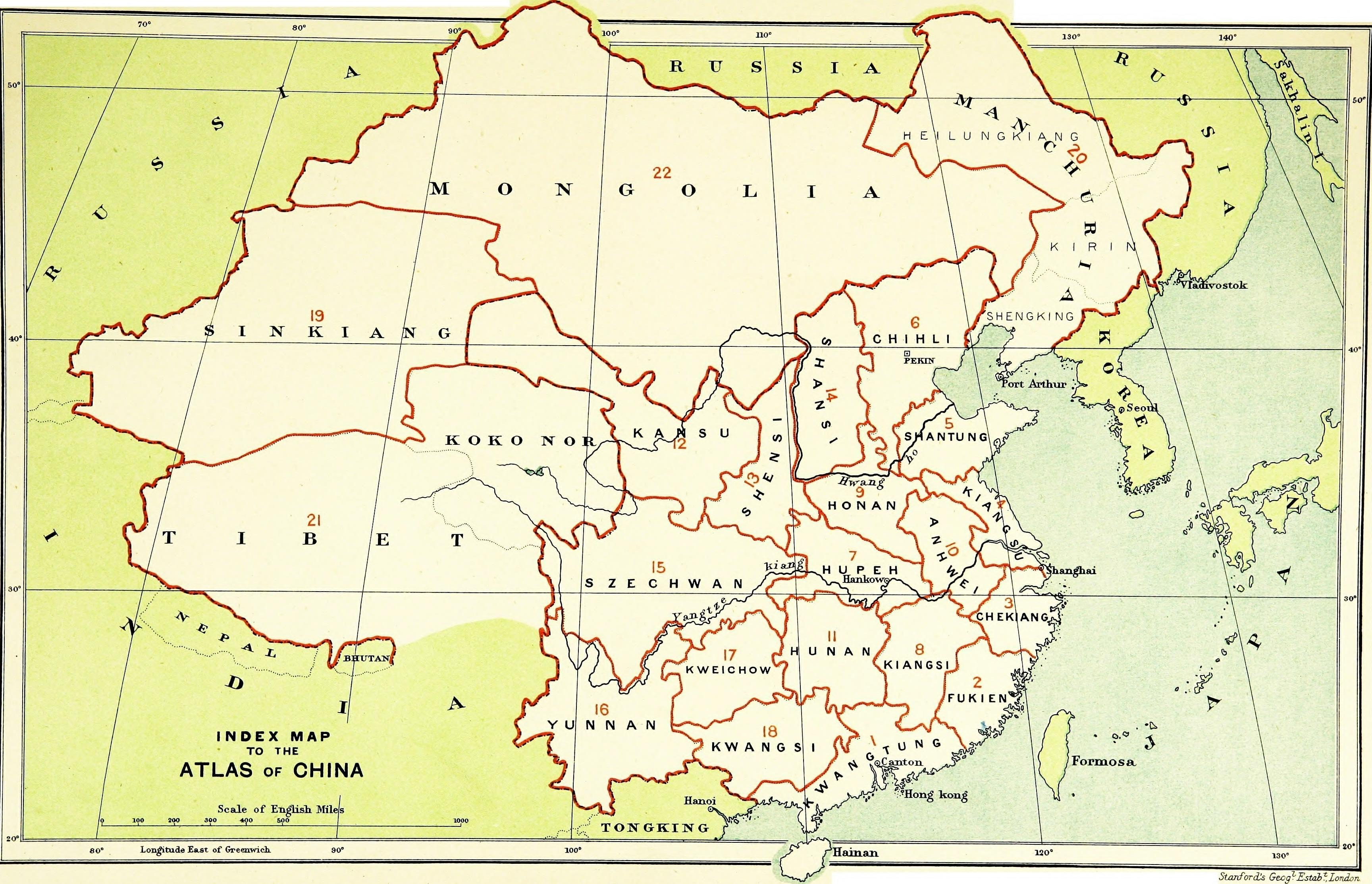 Complete atlas of China : containing separate maps of the eighteen provinces of China proper ... and of the four great dependencies ... , p.12